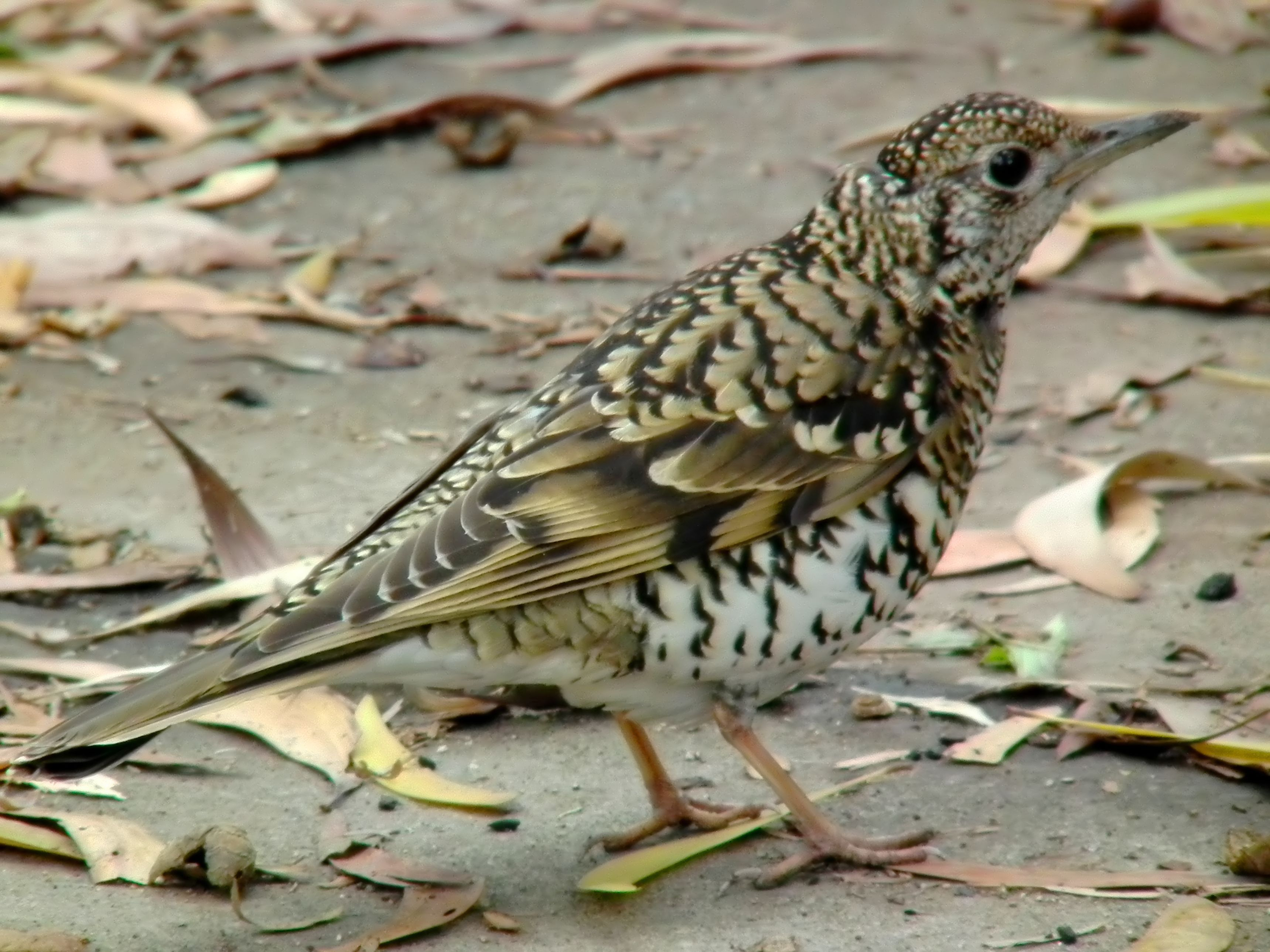 Zoothera aurea, Hong Kong. Saw at forest area .